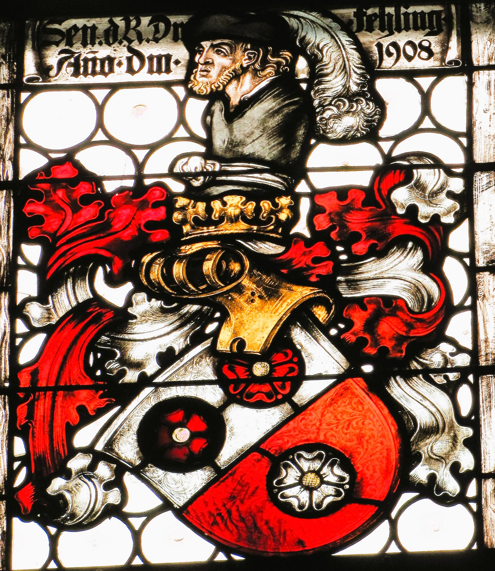 Coat of arms of Emil Ferdinand Fehling in a window of the Heiligengeisthospital L"ubeck